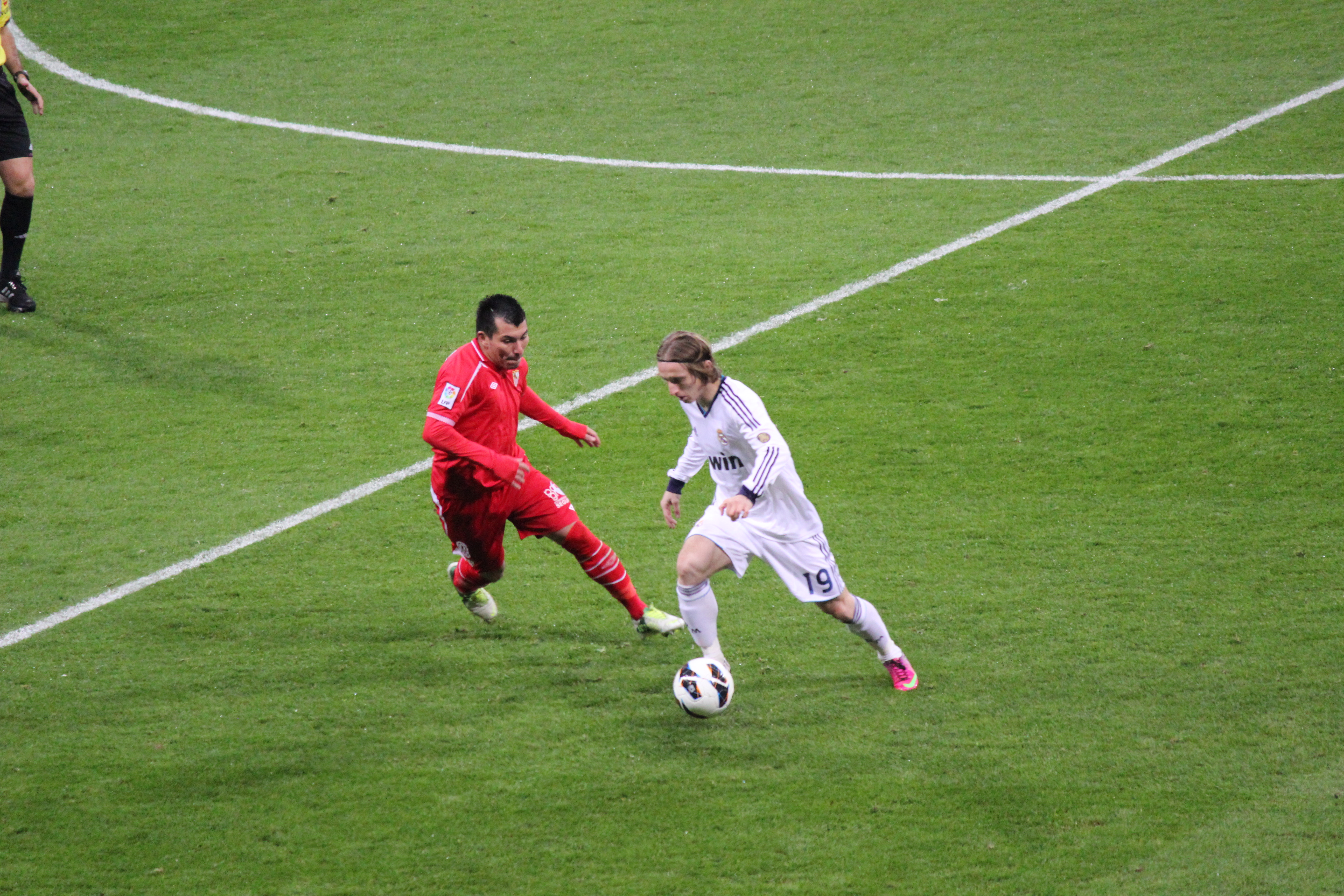 Real Madrid v Sevilla 10 February 2013 in a La Liga game at Real Madrid's home grounds.